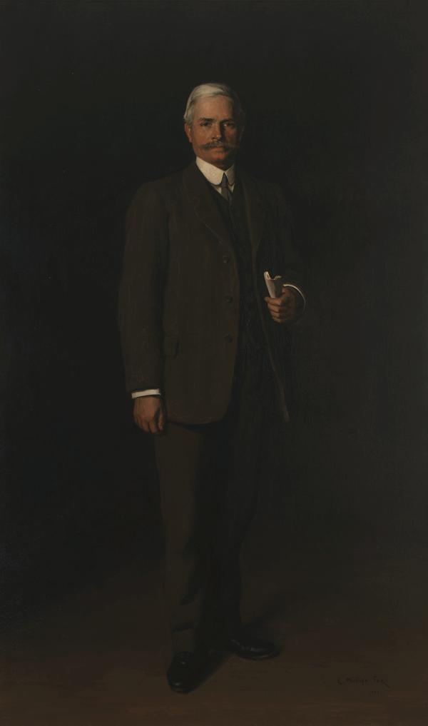 The Rt. Hon. Andrew Fisher, Prime Minister of Australia (1908–09, 1910–13, 1914–15).